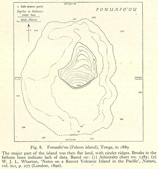 1889 map of Fonuafoʻou Island, a periodically existing island in the west of the Haʻapai Group, Tonga, Pacific Ocean